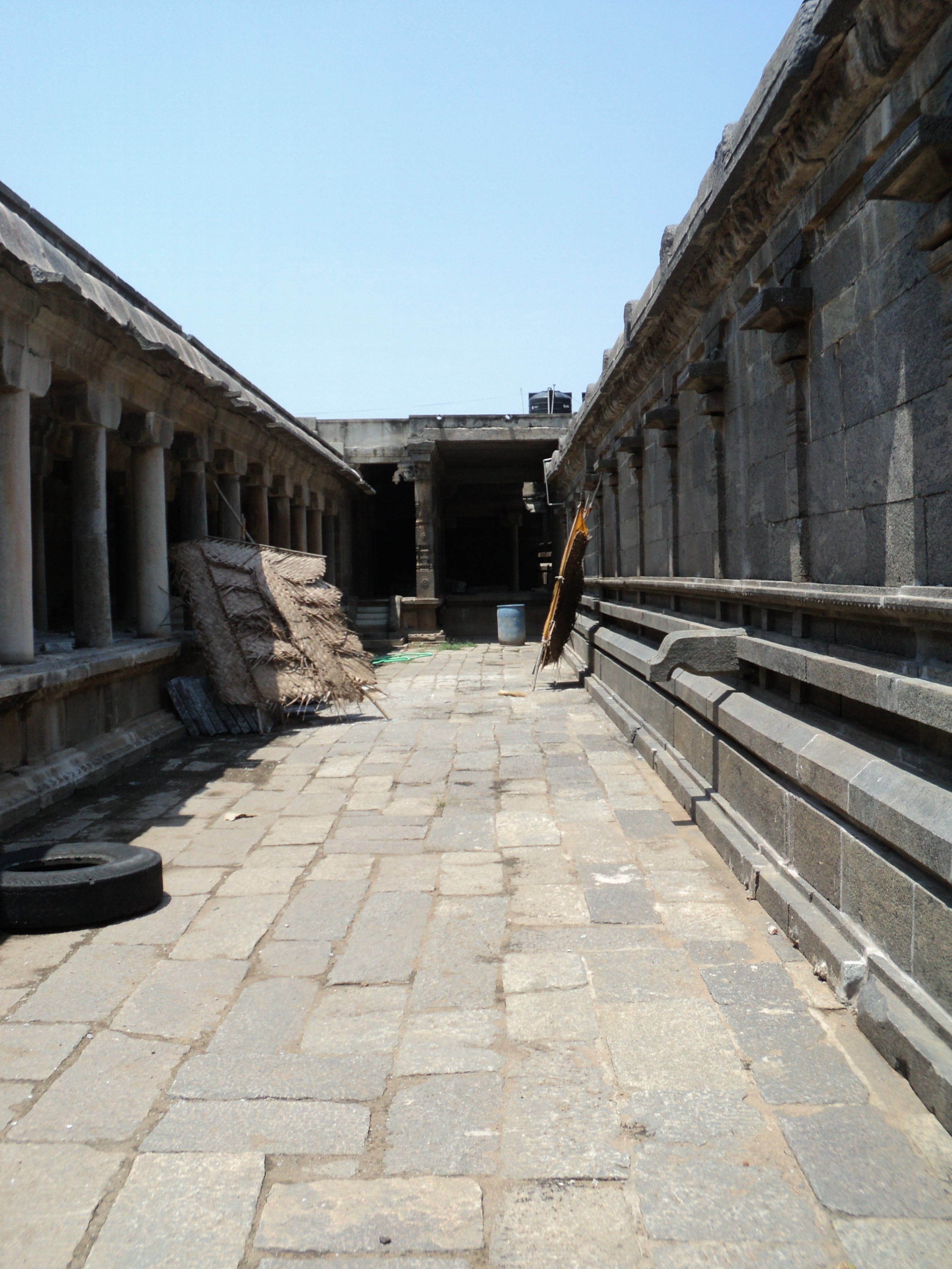 temple view